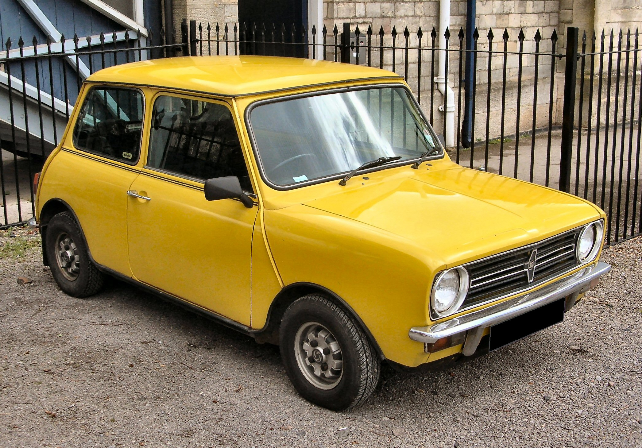 A 1980 Mini Clubman